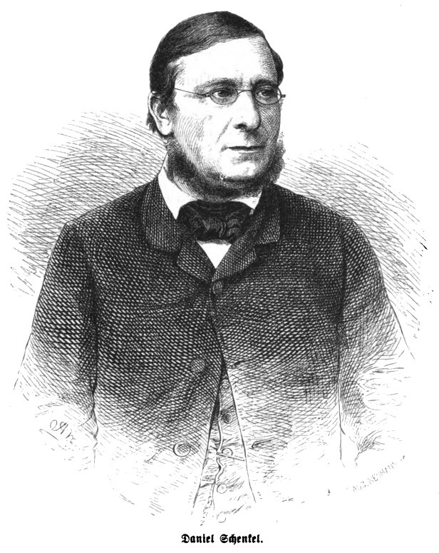 no caption